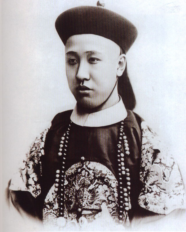 Puyi's father, the second Prince Chun